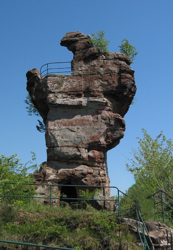 Edit of Image:Drachenfels-Turm.jpg